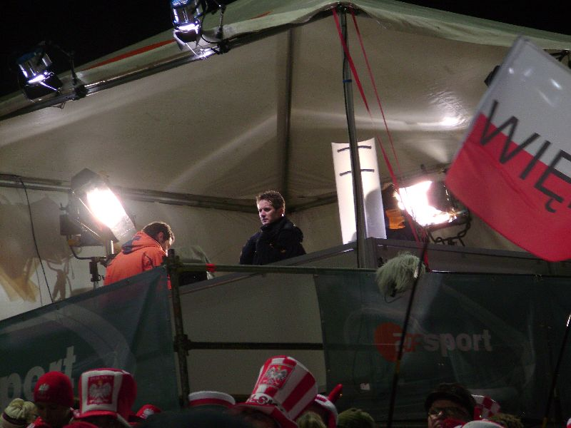 tv commentator and former ski jumper Jens Weissflog from Germany during the World Cup in Zakopane on 26-1-2008